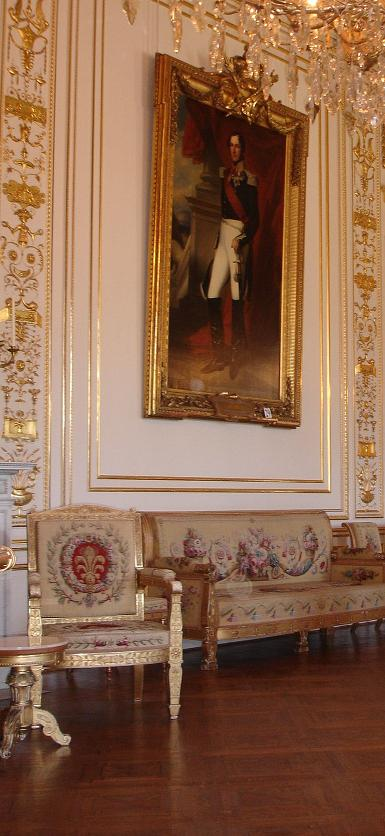 Grand White Salon, painting of king Leopold I; Royal Palace, Brussels